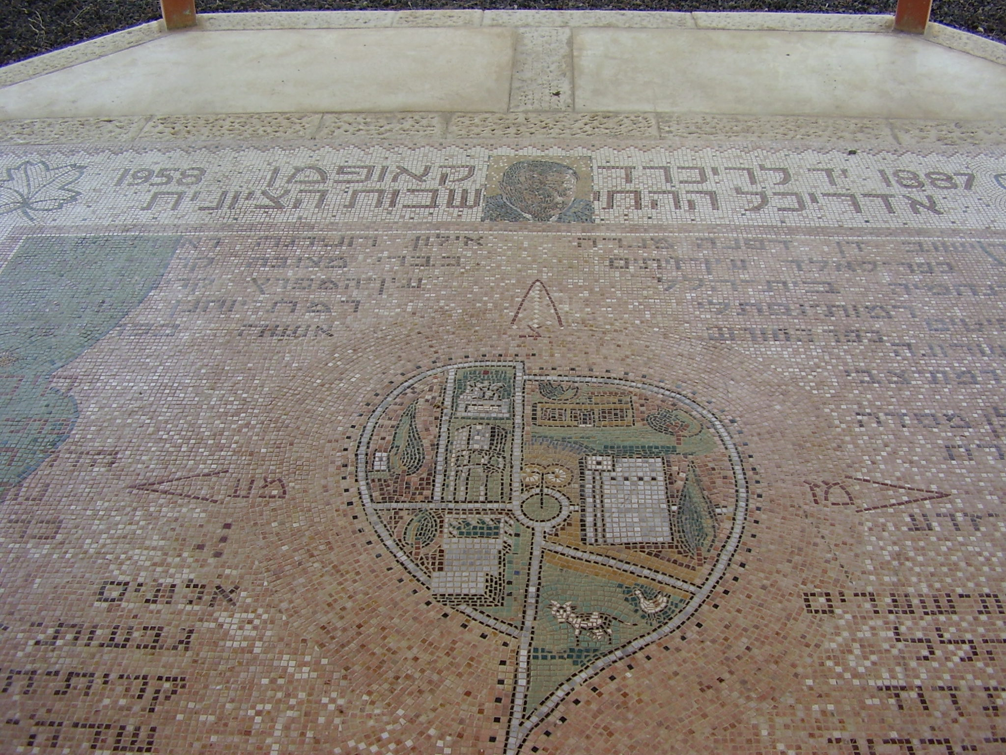 Mosaic of Richard Kauffmann in Kfar Yehoshua